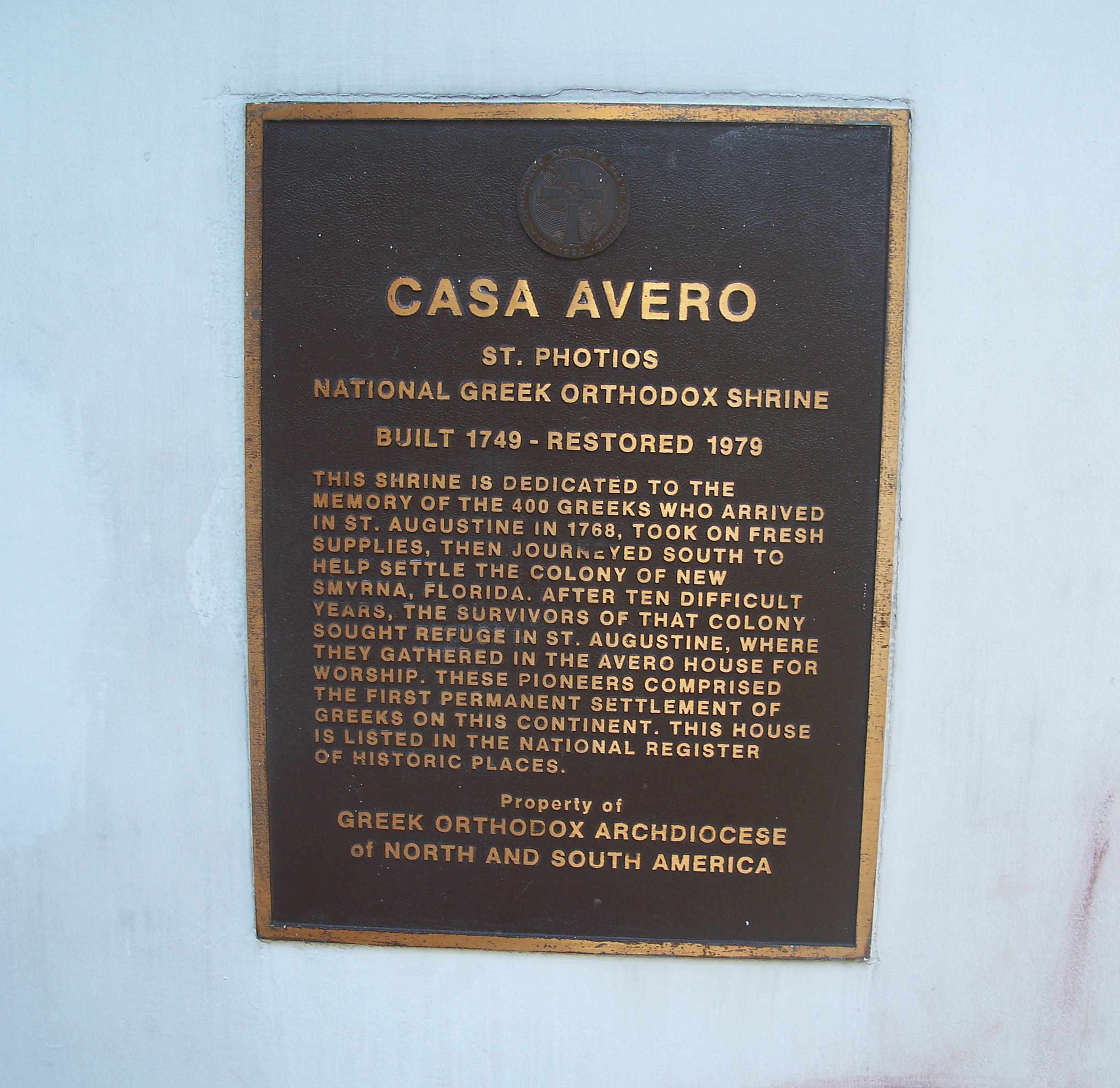 St. Augustine, Florida: Plaque at the Avero House.